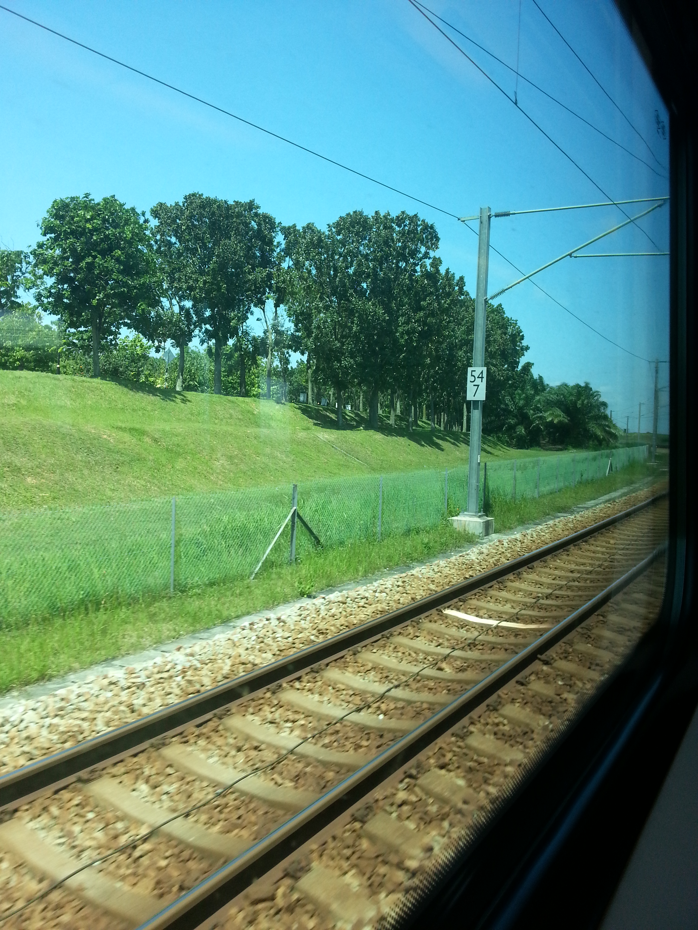 Impression of the KLIA Ekspres railway line, taken from a train headed for Kuala Lumpur airport.